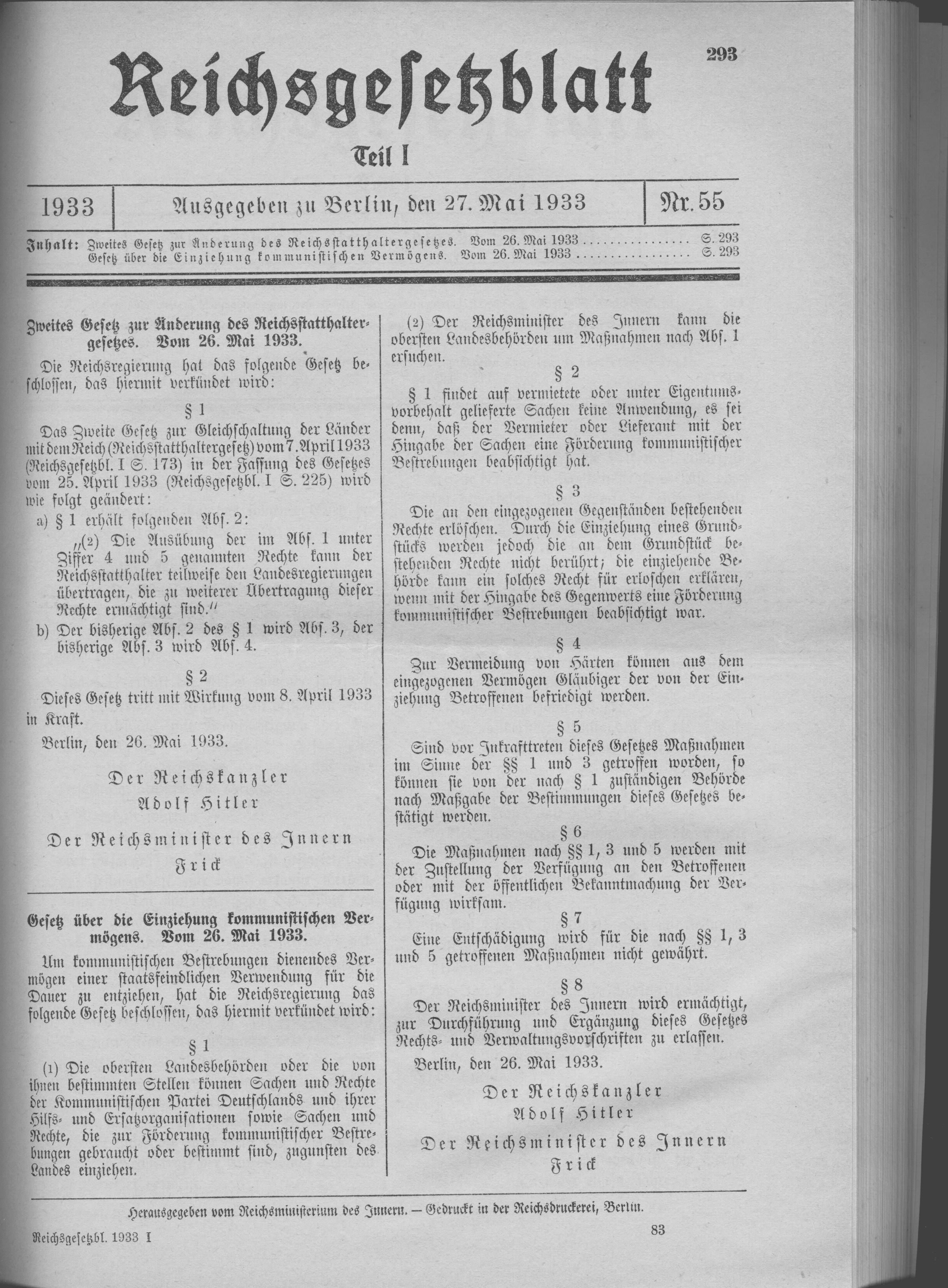 Scan from the Imperial Law Gazette of Germany, 1933, part 1